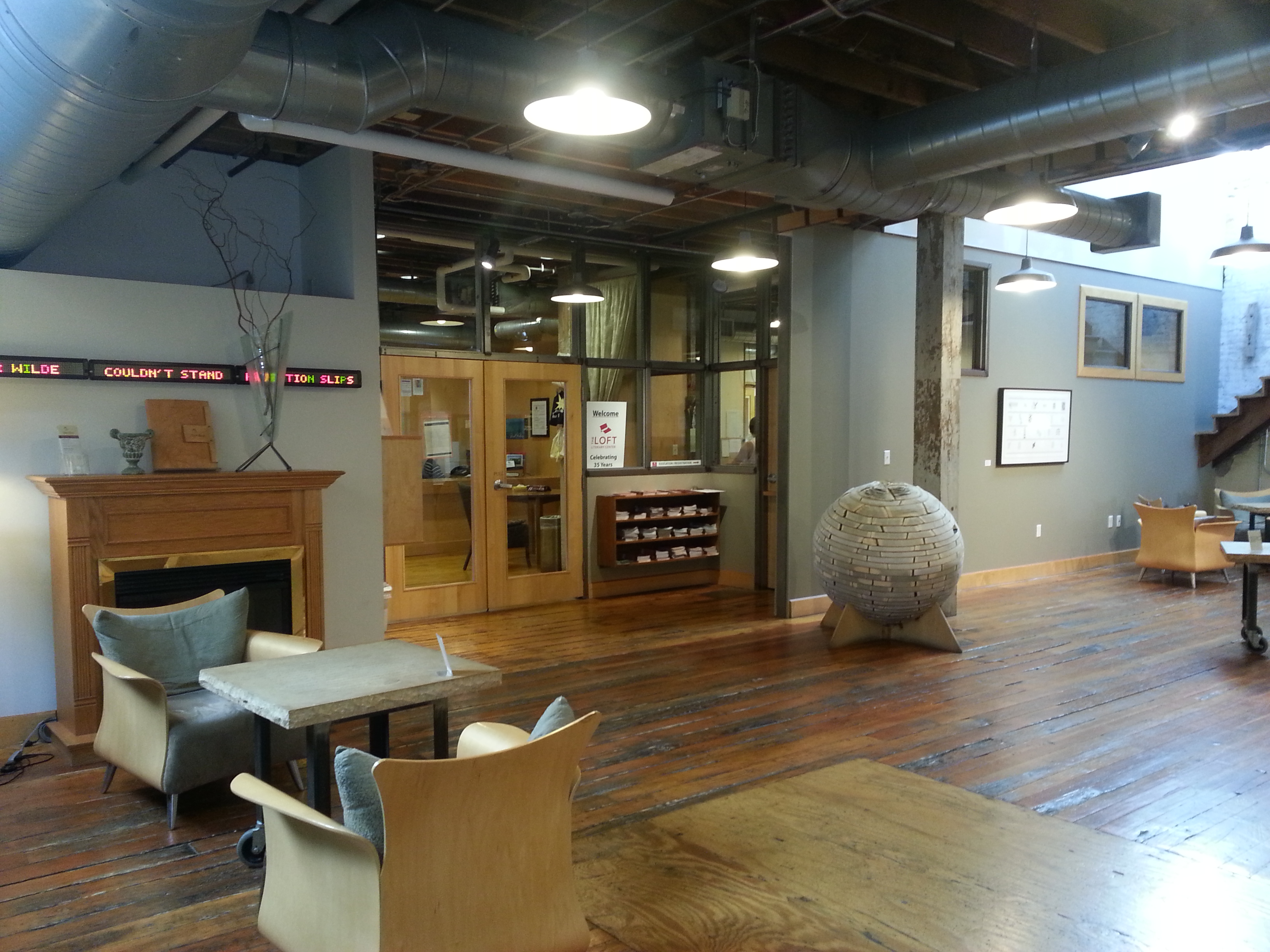 This is the lobby outside the Loft Literary Center in the Open Book building in Minneapolis, Minnesota.